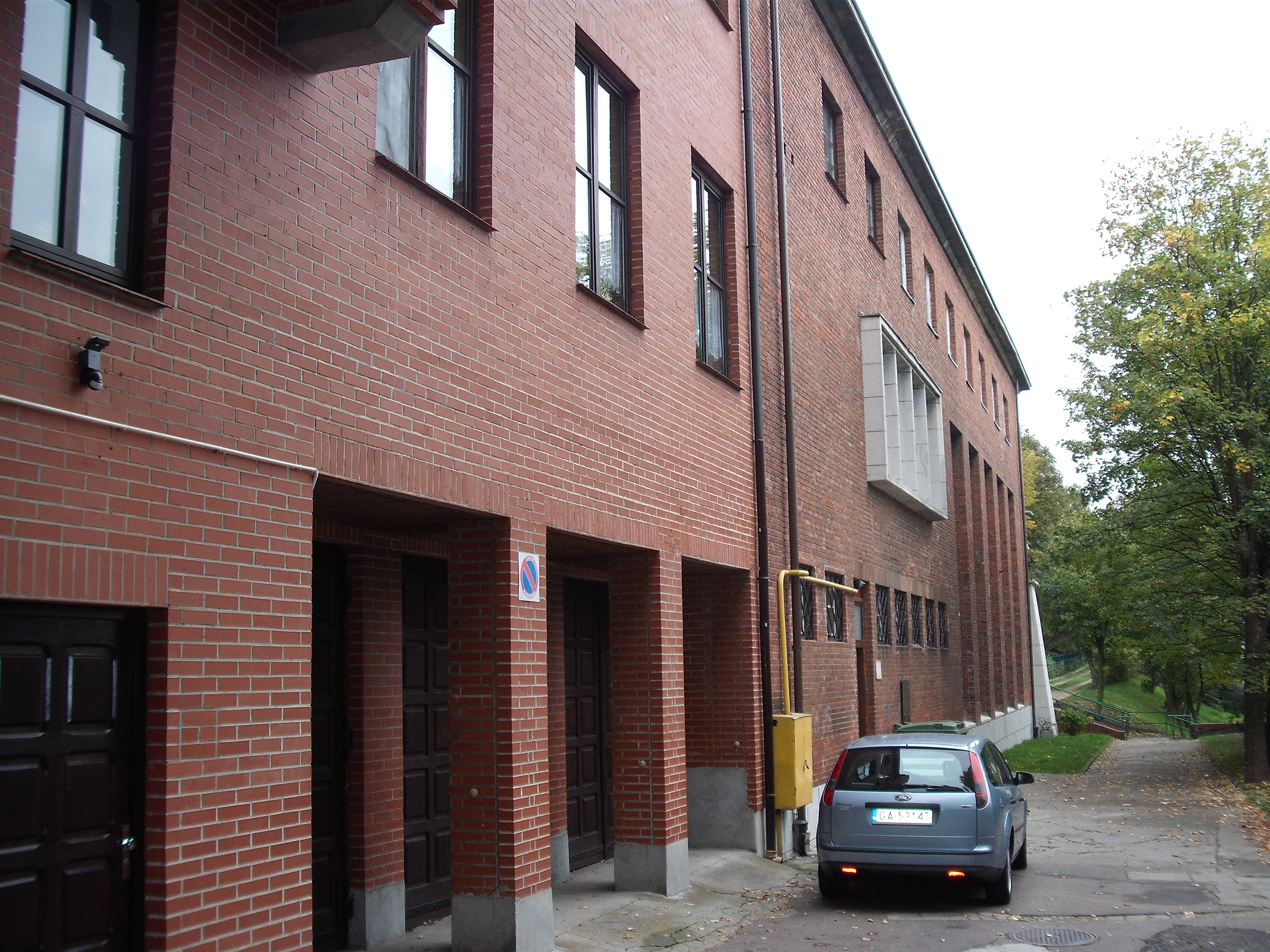 St. Anthony monastery Gdynia, new and old building